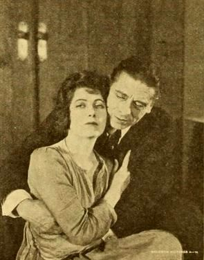 Still from the American film The Eternal Magdalene (1919) with Marguerite Marsh and an unidentified actor, on page 1676 of the March 22, 1919 Moving Picture World.